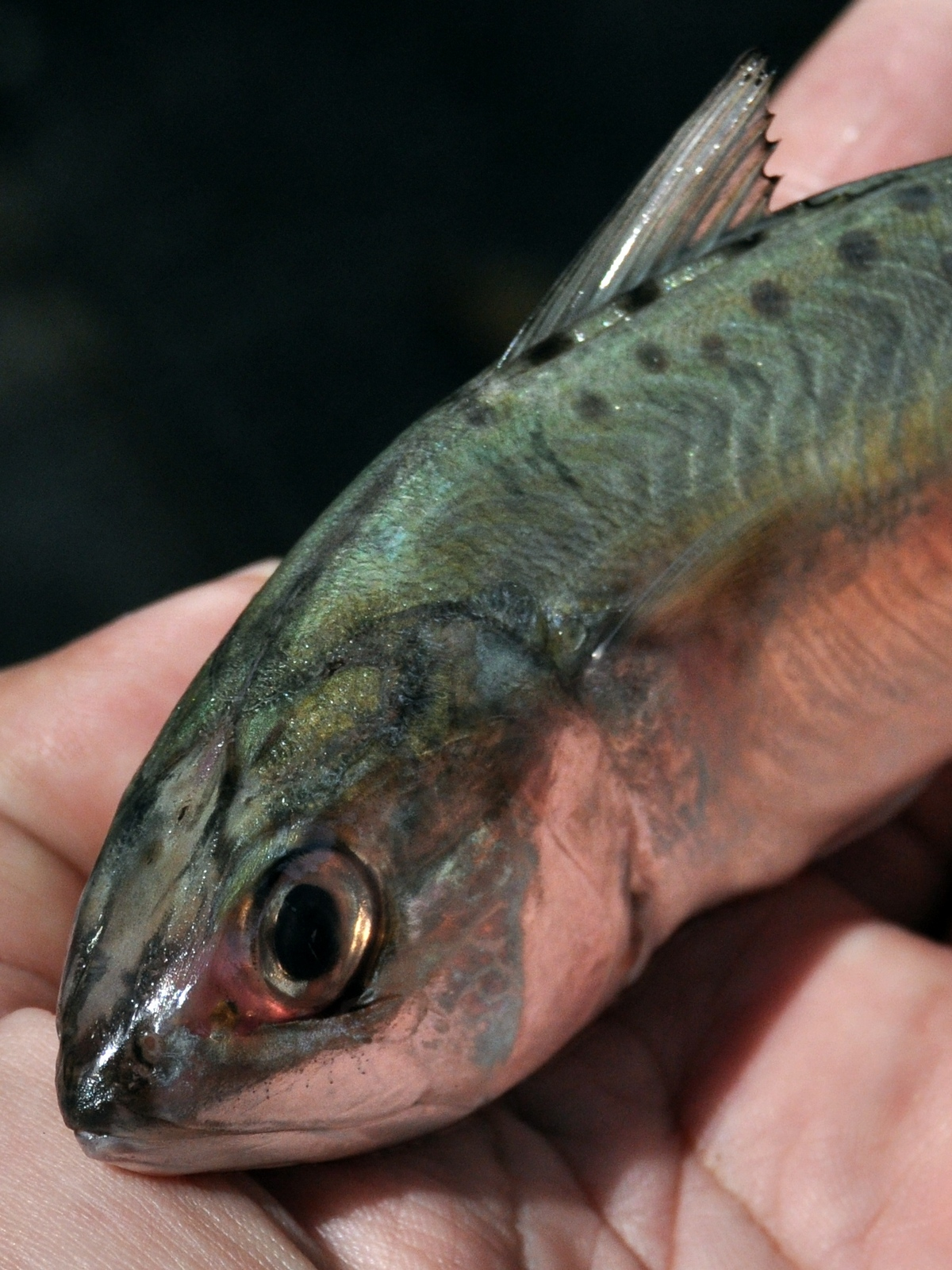 Short mackerel Rastrelliger brachysoma, 145 mm fork length. Head close up. From Bogor market, West Java,Indonesia.